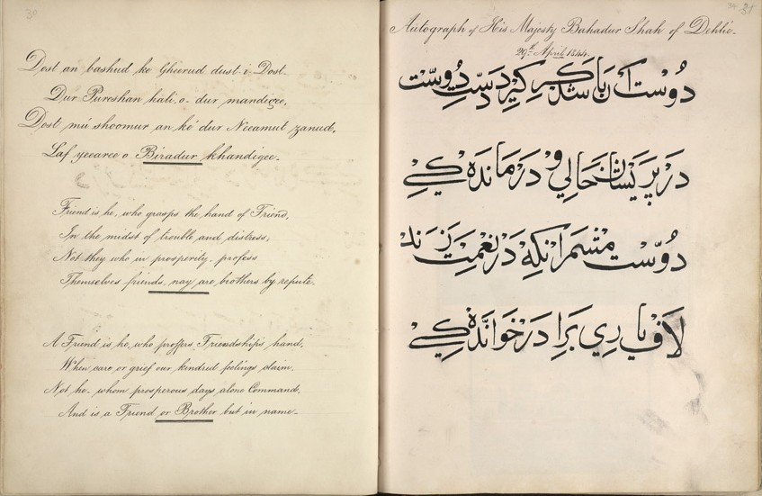 A Persian poem written in Bahadur Shah's hand. It was a sign of friendship to write out a poem in one's own personal calligraphic style to give to a friend. Thomas Metcalfe's note above the poem tells us that Bahadur Shah gave him the poem on 29 April 1844. On the opposite page, Metcalfe wrote an English translation of the poem. From 'Reminiscences of Imperial Delhi’, an album consisting of 89 folios containing approximately 130 paintings of views of the Mughal and pre-Mughal monuments of Delhi, as well as other contemporary material, with an accompanying manuscript text written by Sir Thomas Theophilus Metcalfe (1795-1853), the Governor-General’s Agent at the imperial court. Dost an bashud ke Gheerud dust-i Dost Dur Pureshan hali,o-dur mandigee, Dost mu shoomur an ke dur Neeamut zanud, Laf yeearee o Biradur khandigee. Friend is he, who grasps the hand of Friend, In the midst of trouble and distress, Not they who in prosperity profess Themselves friends, nay are brothers by repute. A Friend is he, who proffers Friendship's hand When care or grief our kindred feelings claim Not he whom prosperous days alone command And is a Friend or Brother but in name. Autograph of His Majesty Bahadur Shah of Delhi 29th April 1844. The well-known Persian verse transcribed and translated opposite. This file has been provided by the British Library from its digital collections. This tag does not indicate the copyright status of the attached work. A normal copyright tag is still required. See Commons:Licensing.